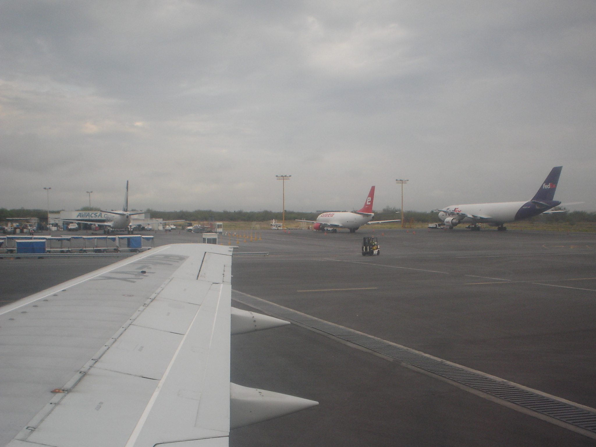 Cargo Terminal at Monterrey International Airport